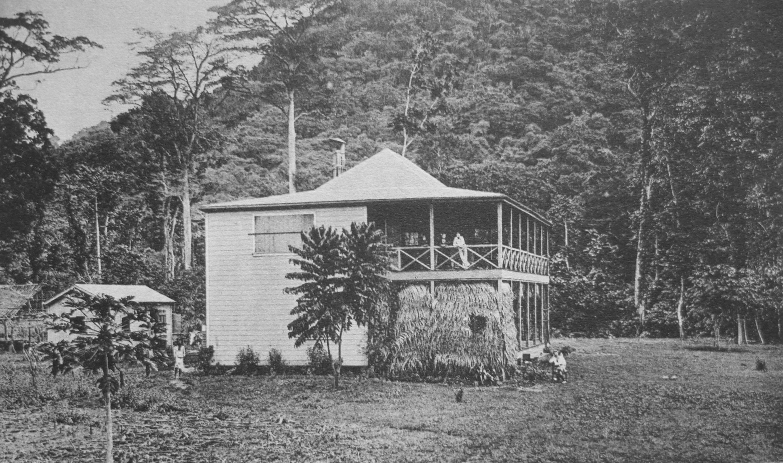 Robert Louis Stevenson's home at Valima, Samoa, showing him on the veranda.